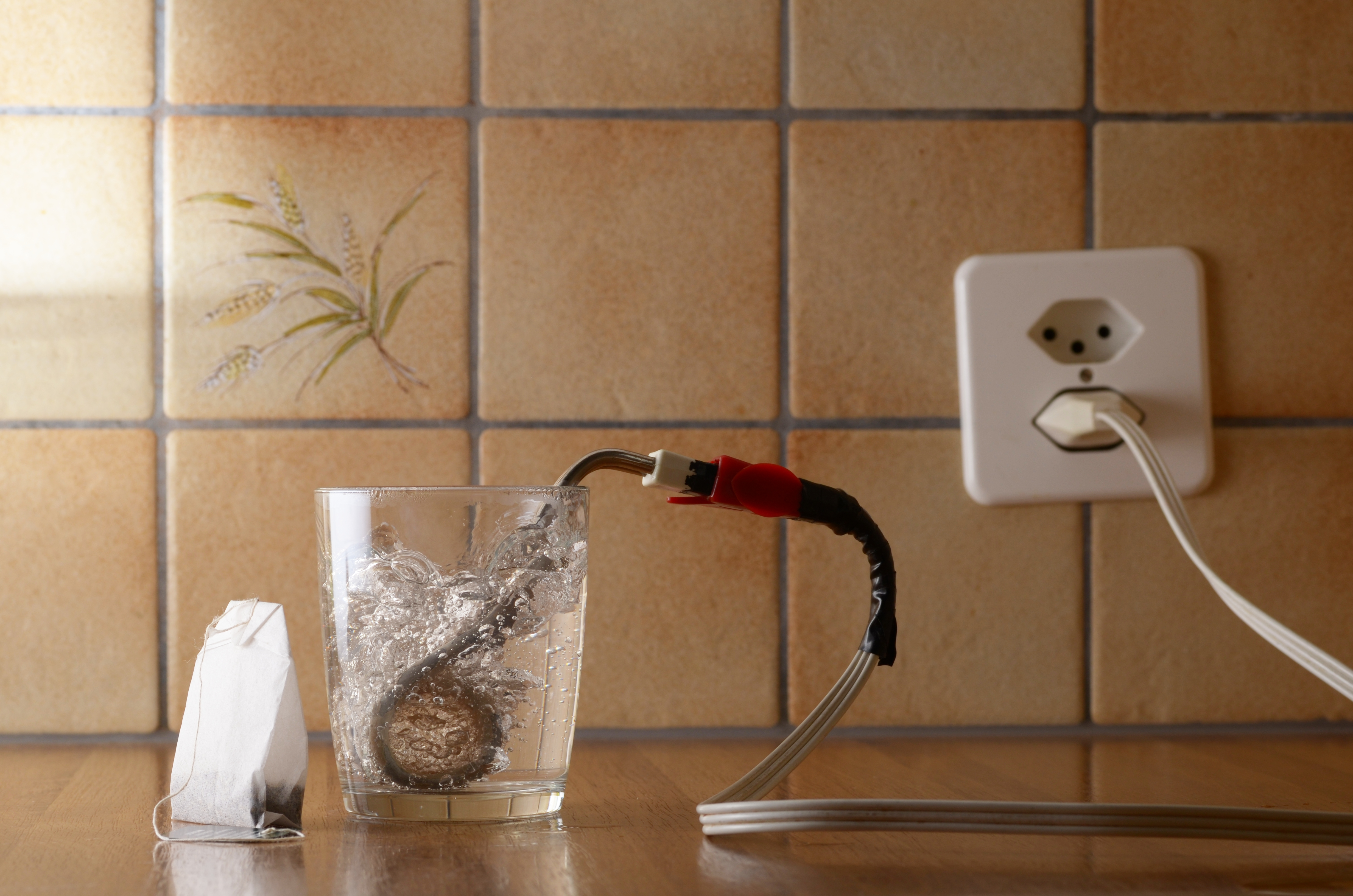 Immersion heater with a power of 500 W, in this picture used for boiling tea water.